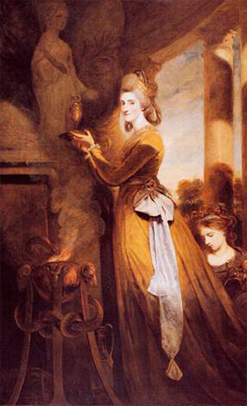 Hon. Louisa Pitt (1754–1791), was born in 1754 (or 1756) in Stratfield-Say, Southampton, Hampshire, England, the daughter of the British diplomat and politician George Pitt, 1st Baron Rivers (1721 –1803) and Penelope Atkins. She married English peerage Sir Peter Beckford (1740 - 1811) on 22 March 1773 in Dorset. Sir Peter Beckford was a writer, a huntsman, and the cousin of the English novelist William Thomas Beckford (1760-1844) who is the author of the famous Gothic novel Vathek. From 22 March 1773, her married name became Louisa Beckford (Mrs. Peter Beckford). Louisa Beckford had an affair with her husband’s cousin William Beckford after her marriage. She died in 1791. Original Painting held in Lady Lever Art Gallery, Port Sunlight, England